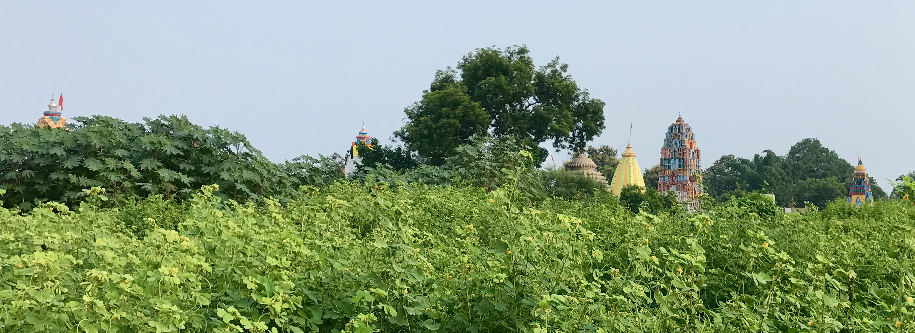 Sirpur, also referred in medieval era texts as Shripur (city of wealth), is a town on the banks of Mahanadi in Chhattisgarh. The site became archaeologically significant after a visit and report on a Laxman (Lakshmana) temple in 1872 by Alexander Cunningham, a colonial British India official. Sirpur is mentioned in the memoirs of the Chinese traveler Hieun Tsang as a location of monasteries and temples. The site has been significant for its temple ruins of Rama and Lakshmana of the Ramayana fame. The site excavations after 1960, particularly after 2003, have yielded 22 Shiva temples, 5 Vishnu temples, 10 Buddha Viharas, 3 Jain Viharas, a 6th/7th century market and snana-kund (bath house). The site shows extensive syncretism, where Buddhist and Jain statues or motifs intermingle with Shiva, Vishnu and Devi temples. The region was conquered and plundered by the armies of Delhi Sultanate and later Deccan Sultanates. The town and temples were damaged in the wars and were abandoned. Dense vegetation grew over it and floods deposited silt. There is also evidence of possible earthquake damage. 20th and 21st century excavations have unearthed many monuments. The site is large and artwork stick out of farmlands and dirt roads in and near Sirpur.